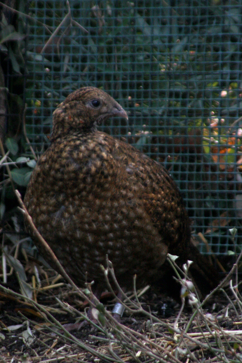 Satyr Tragopan, female, St. Louis Zoo